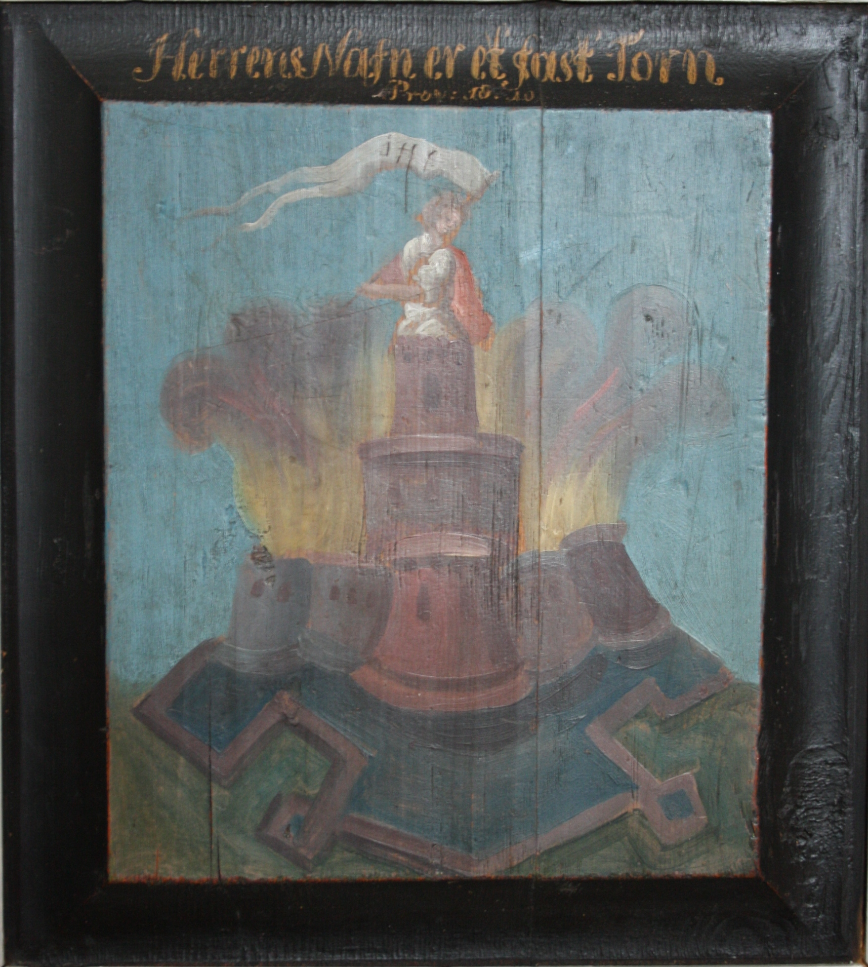 Allegoric painting by Mogens Christian Thrane in Sortebrødre Church, Viborg, Denmark. Text: The name of the Lord is a solid tower (Proverb. 18,10)